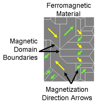 Diagram representing magnet domains not magnetized John 19:45, 29 August 2007 (UTC)